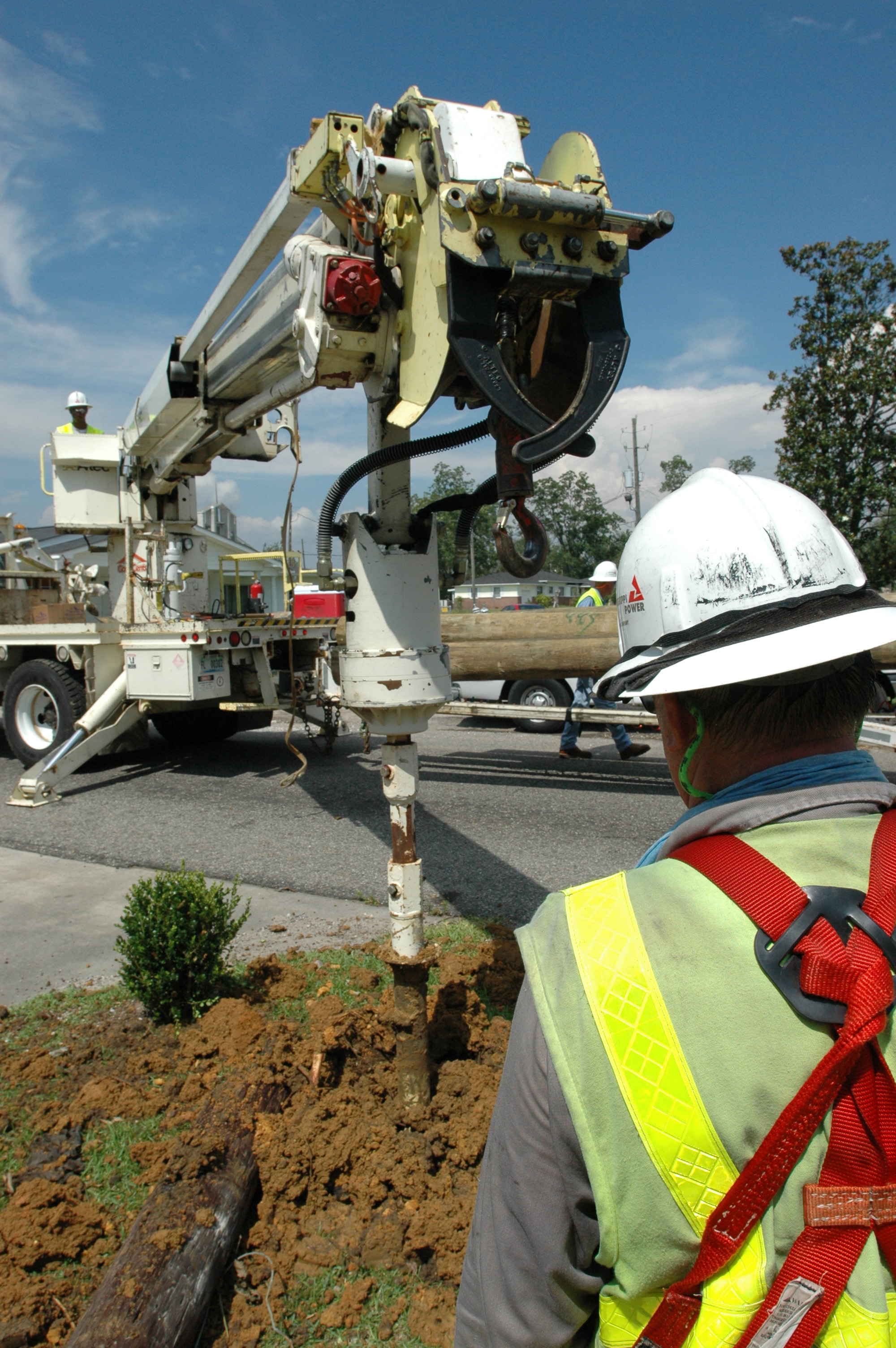 Atmore, AL, July 12, 2005 -- Workers from Mississippi Power Company help repair downed power lines in Alabama. Hurricane Dennis caused significant damage in some areas of southern Alabama. FEMA Photo/Mark Wolfe